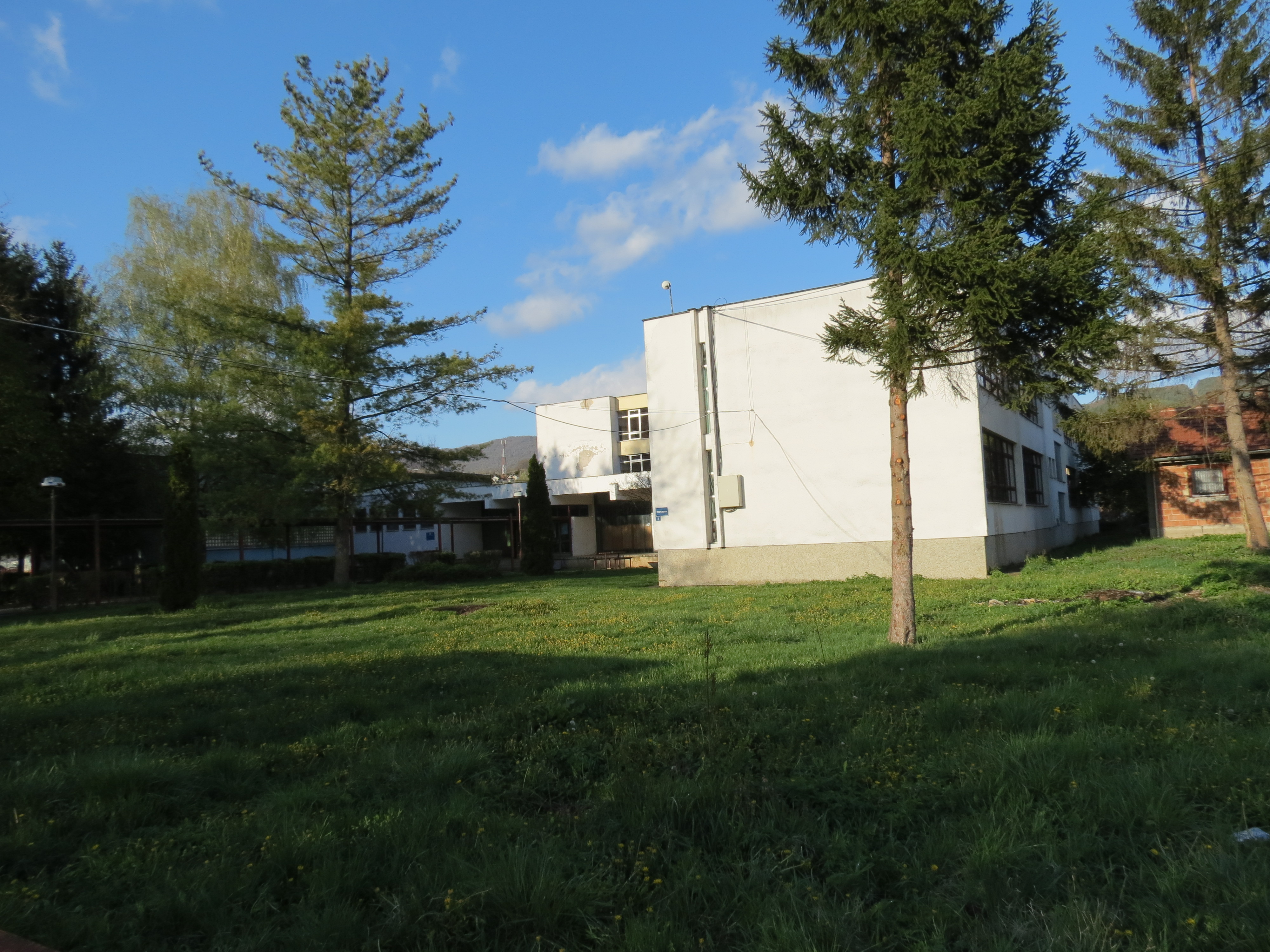 Osnovna škola "Sveti Sava" Rogatica detalj